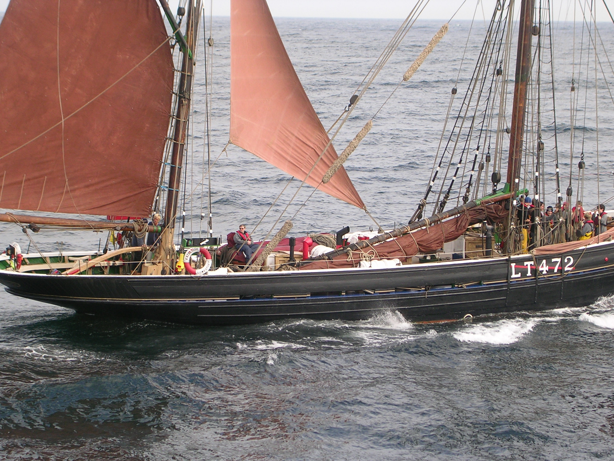 The Lowestoft trawler Excelsior during the 2005 Tall Ships Race to Fredrikstad. Her rig was damaged in bad weather - note the hook forming a jury-backstay - preventing her from hoisting her mainsail. It is not "known" whether the mizzen-staysail in the picture is normally used or a jury-rig to replace the main; however, it is likely a foresail used as a jury-rigred staysail because Excelsior's gaff rig would usually not allow such a stay sail (it would collide with the main sail; compare the length of the folded main ).